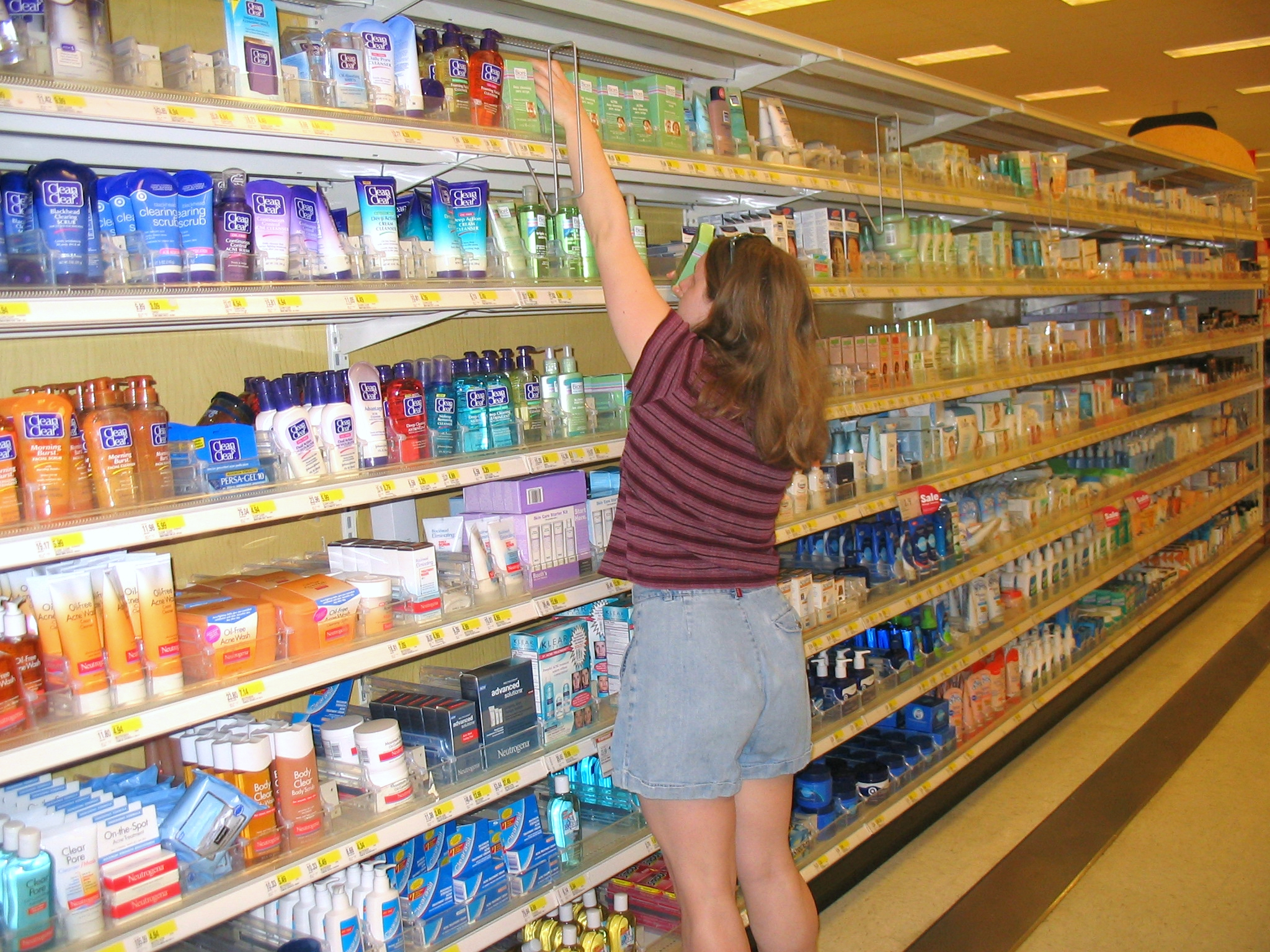 A woman looks through long isles of personal-care products.